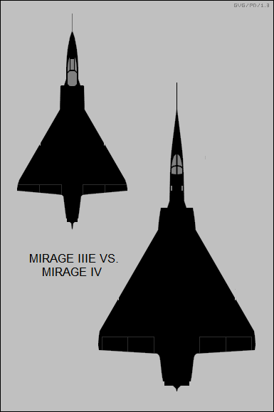 Plan-view silhouettes of the Dassault IIIE, and Dassault Mirage IV